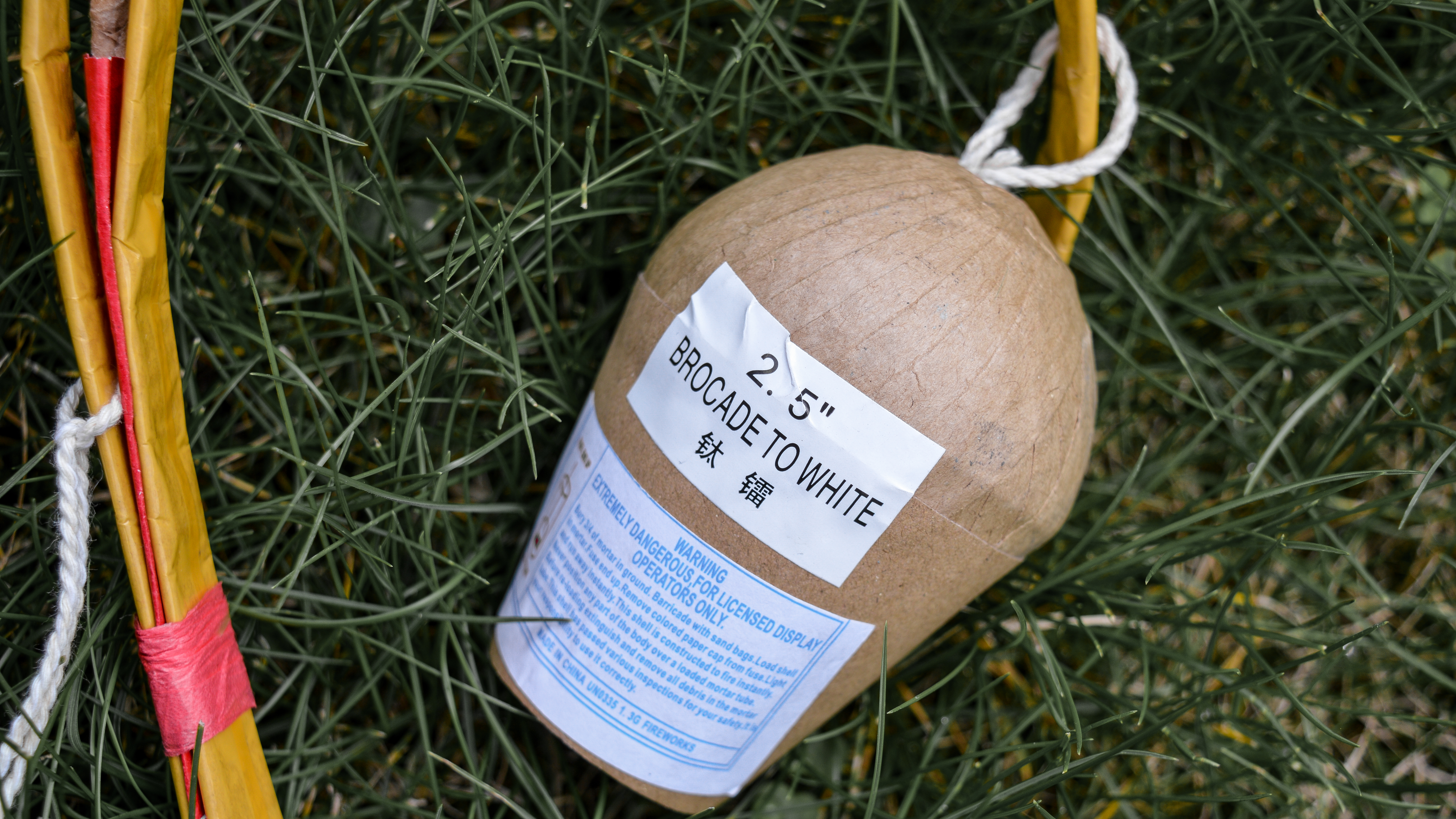 2.5" Firework shell